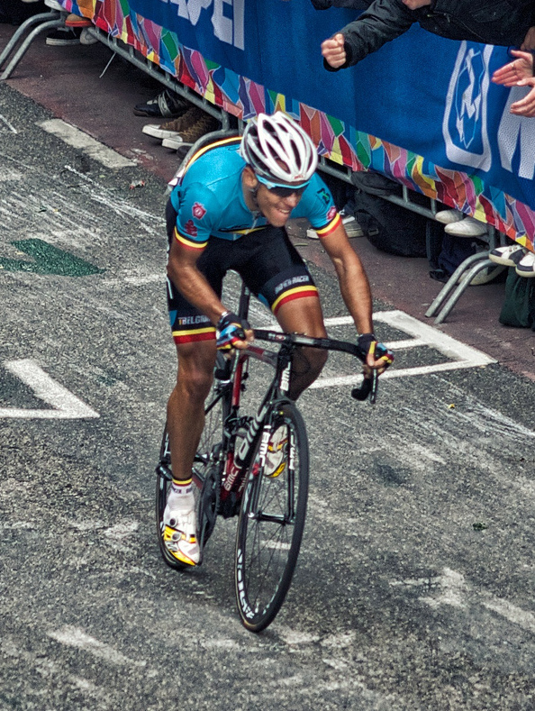 Philippe Gilbert's decisive attack on Cauberg 2012 UCI Road World Championships – Men's road race